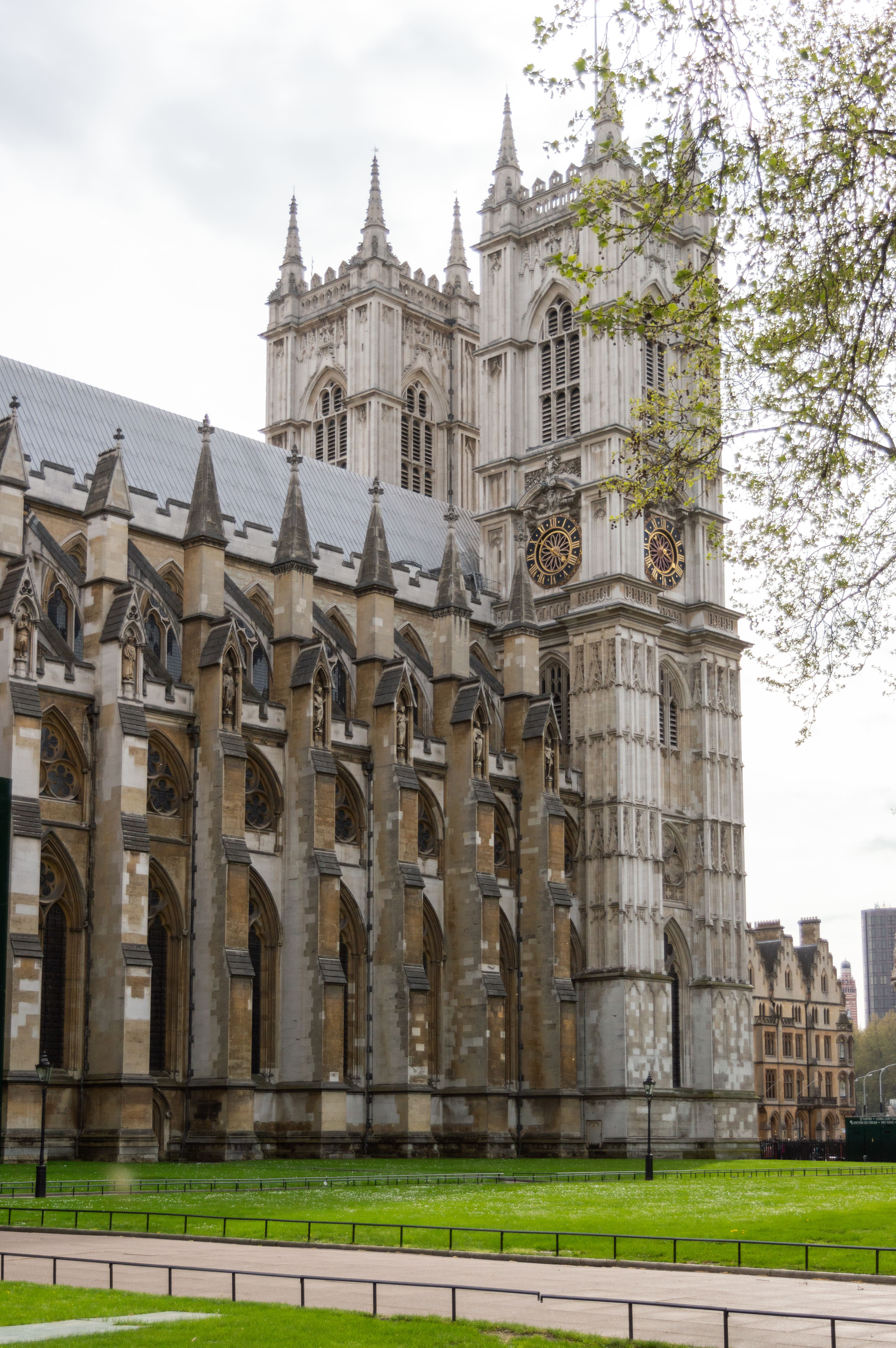 The two towers of the Westminster Abbey in London and part of the north facade.